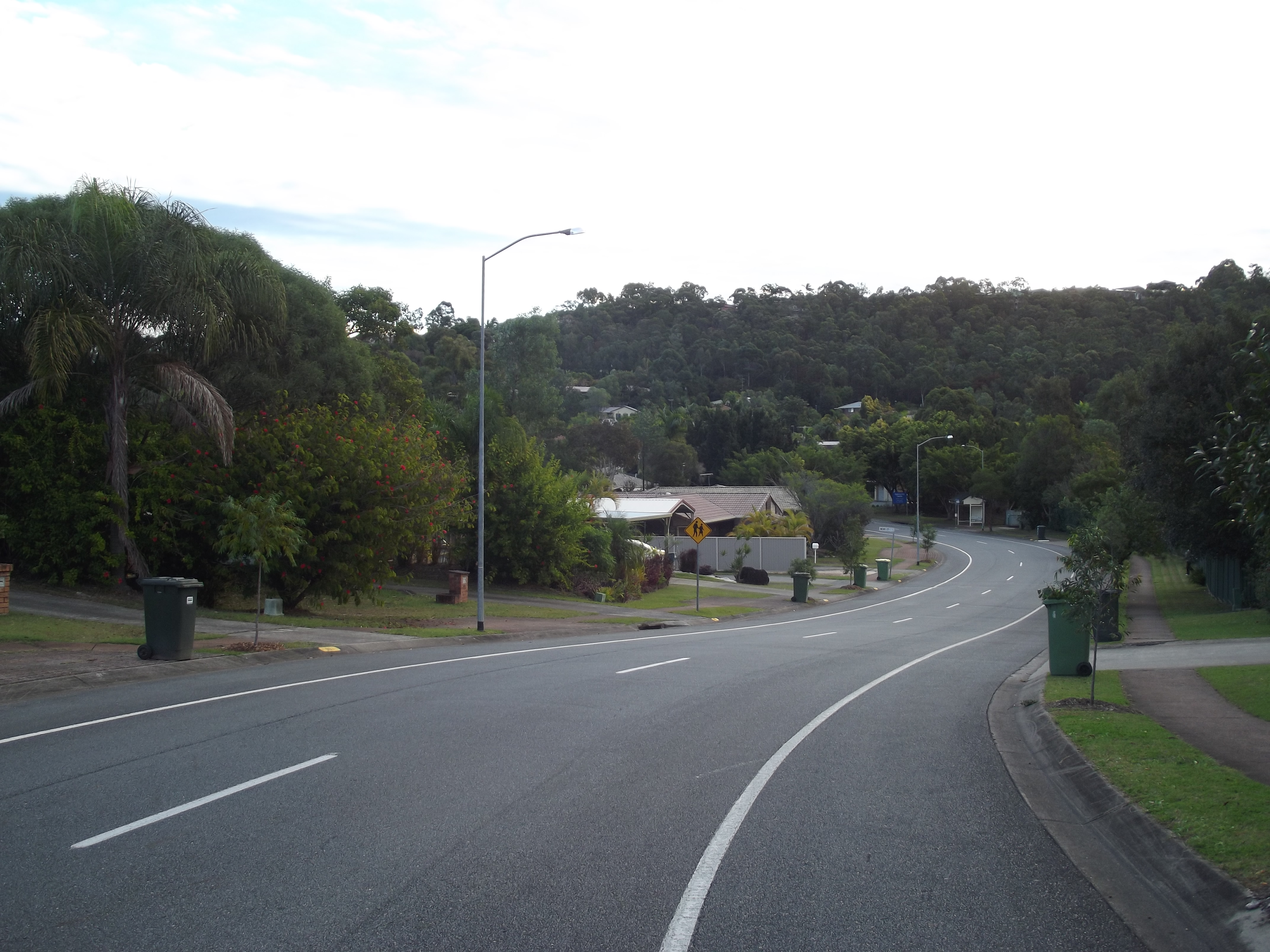 Village Way, a street in Studio Village, a subdivision of Oxenford, Gold Coast, Queensland.